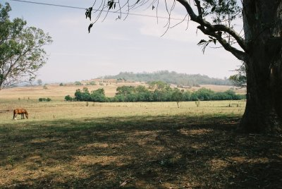 Denbigh, Cobbitty: View from Denbigh homestead looking west.